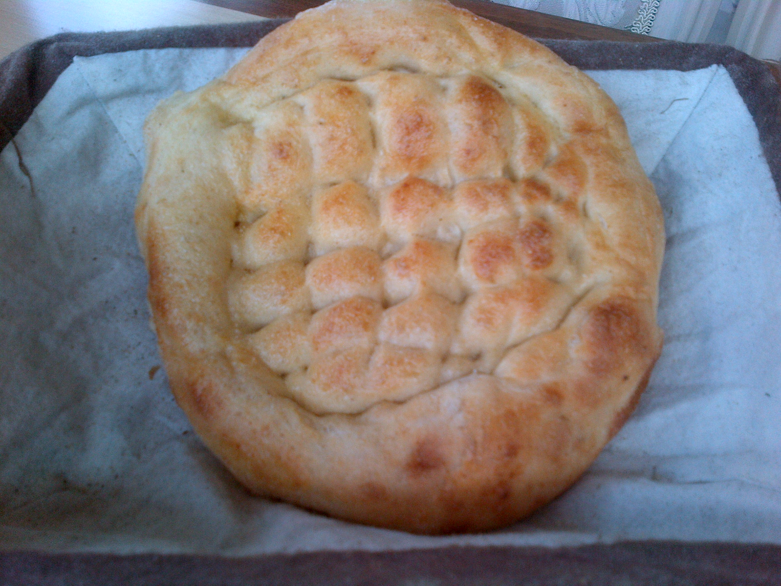 The most conventional Turkish flatbread, "pide". As may be seen, it has little or no similarity with other flatbreads, especially with "pita", other than the similarity of the names.